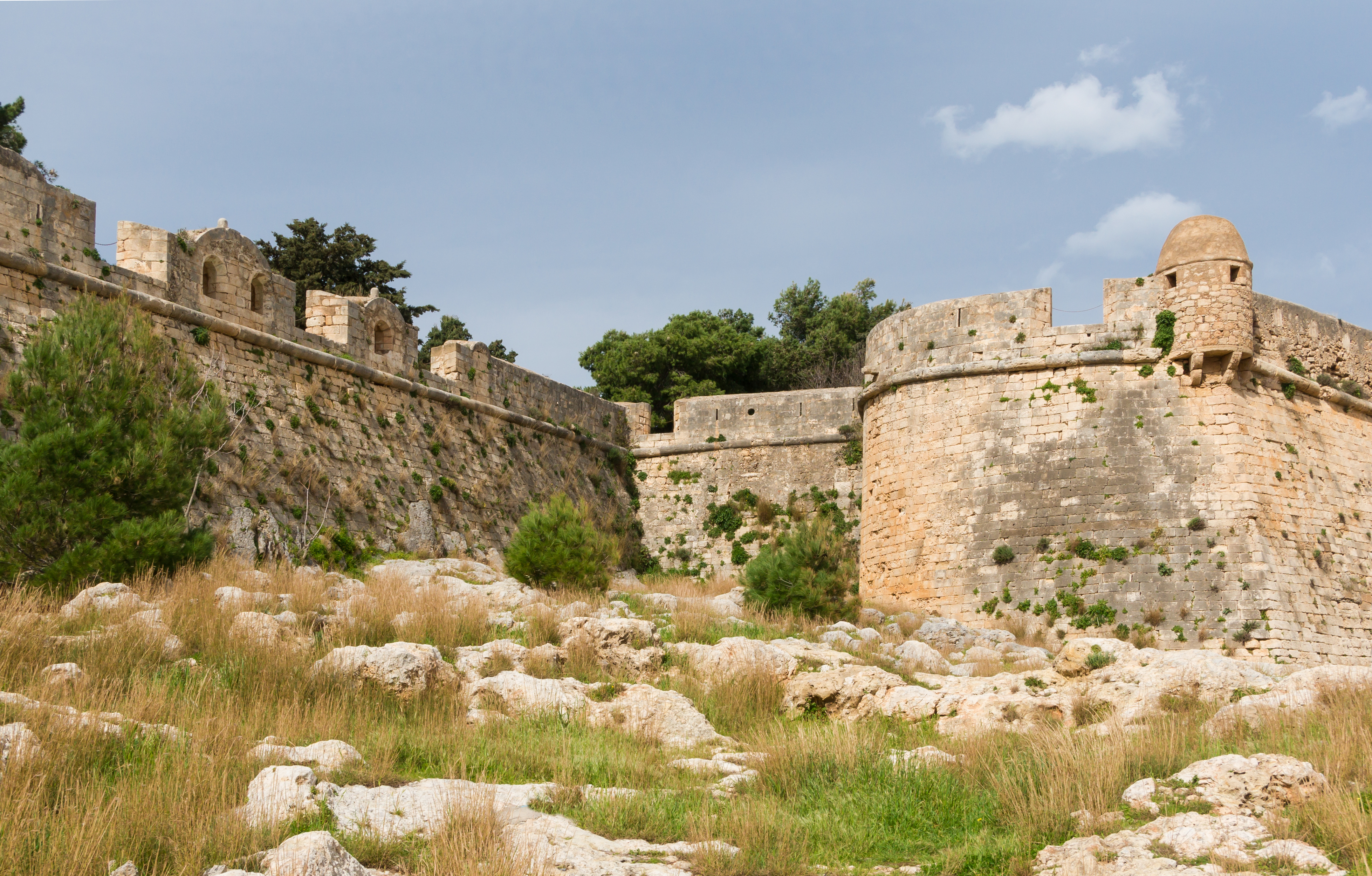 Walls of the "Fortezza" in Rethymno, Crete, Greece.